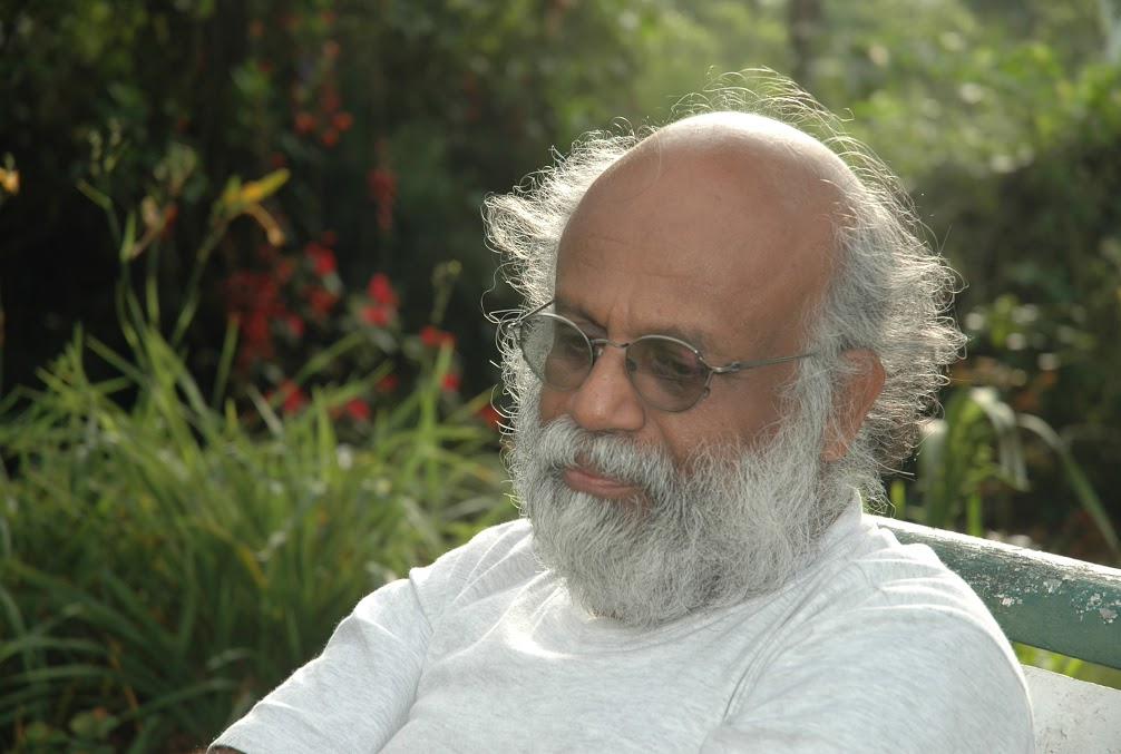 Potrait of Daya Dissanayake